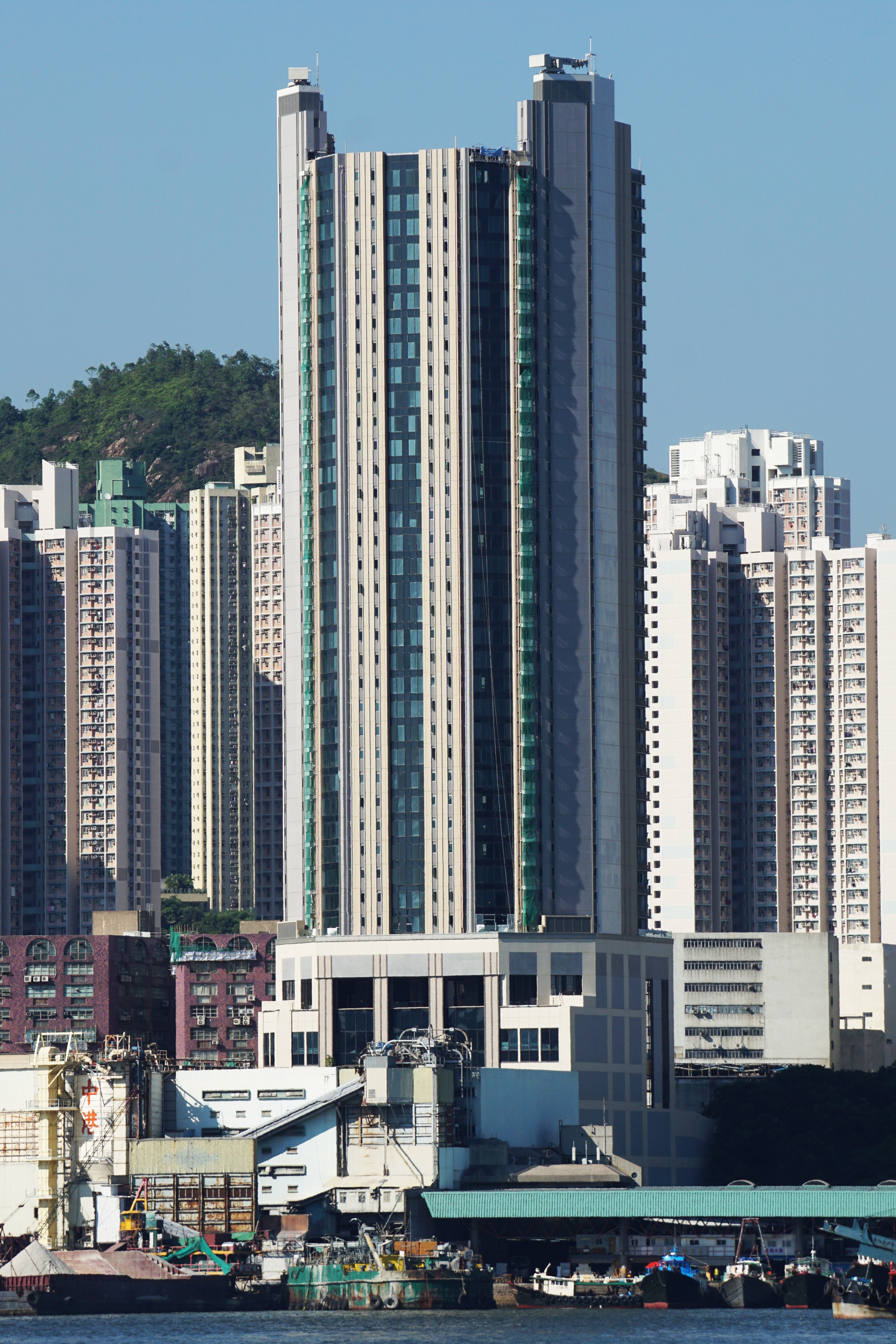 Peninsula East in Yau Tong, Hong Kong.